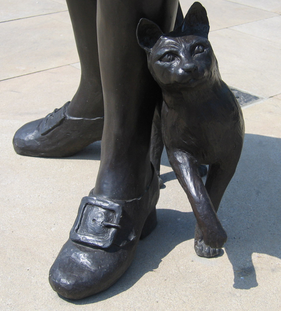 Trim, the cat, in Donington, Lincs. at the feet of his master, Matthew Flinders. 218733